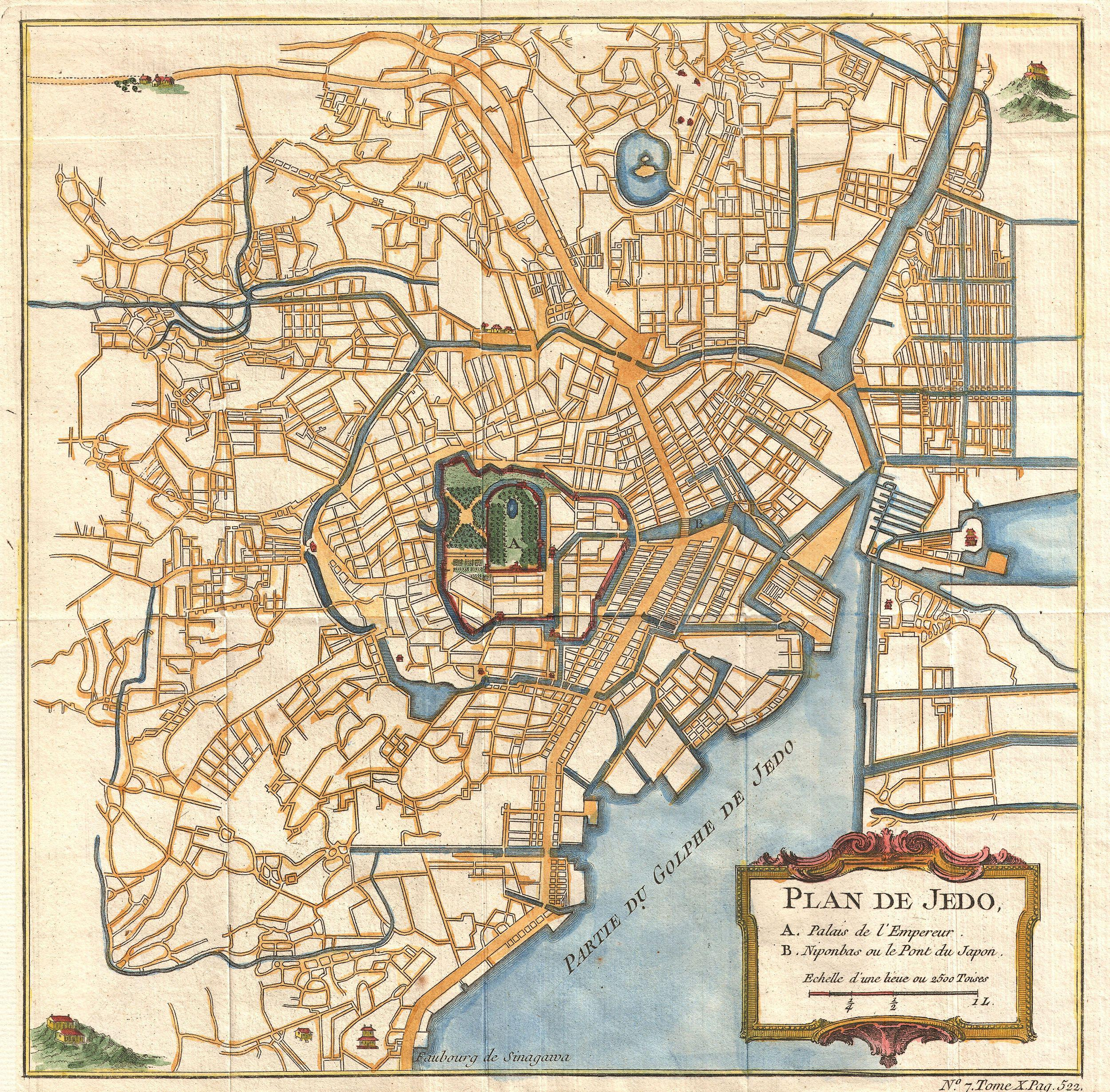 This is an attractive and highly desirable c. 1752 map of Edo or Tokyo, Japan. Issued by Bellin and Schley for Prevost's Histoire Generale des Voyages , this map is cartographically based on a 1702 map of the same issued by Scheuchzer and Kaempfer, which itself is most likely based on Japanese maps. Centered on Edo Castle, this map depicts the whole of Edo as it existed, with numerous street shown but not named. Edo Castle itself is fancifully depicted as a French style formal garden. Possibly due to the cartographers inability to translate Japanese, the only three named locations on the map are Edo Castle, Japan Bridge, and the Faubourg de Sinagawa. Here, in Sinagawa, the Tokugawa Shogunate maintained the Suzugamori Execution grounds where traitors to the state, criminals, and Christians were executed in an effort to contain spiritual pollution. Drawn by N. Bellin and Schley for Abbe Prevost's Histoire Generale des Voyages .